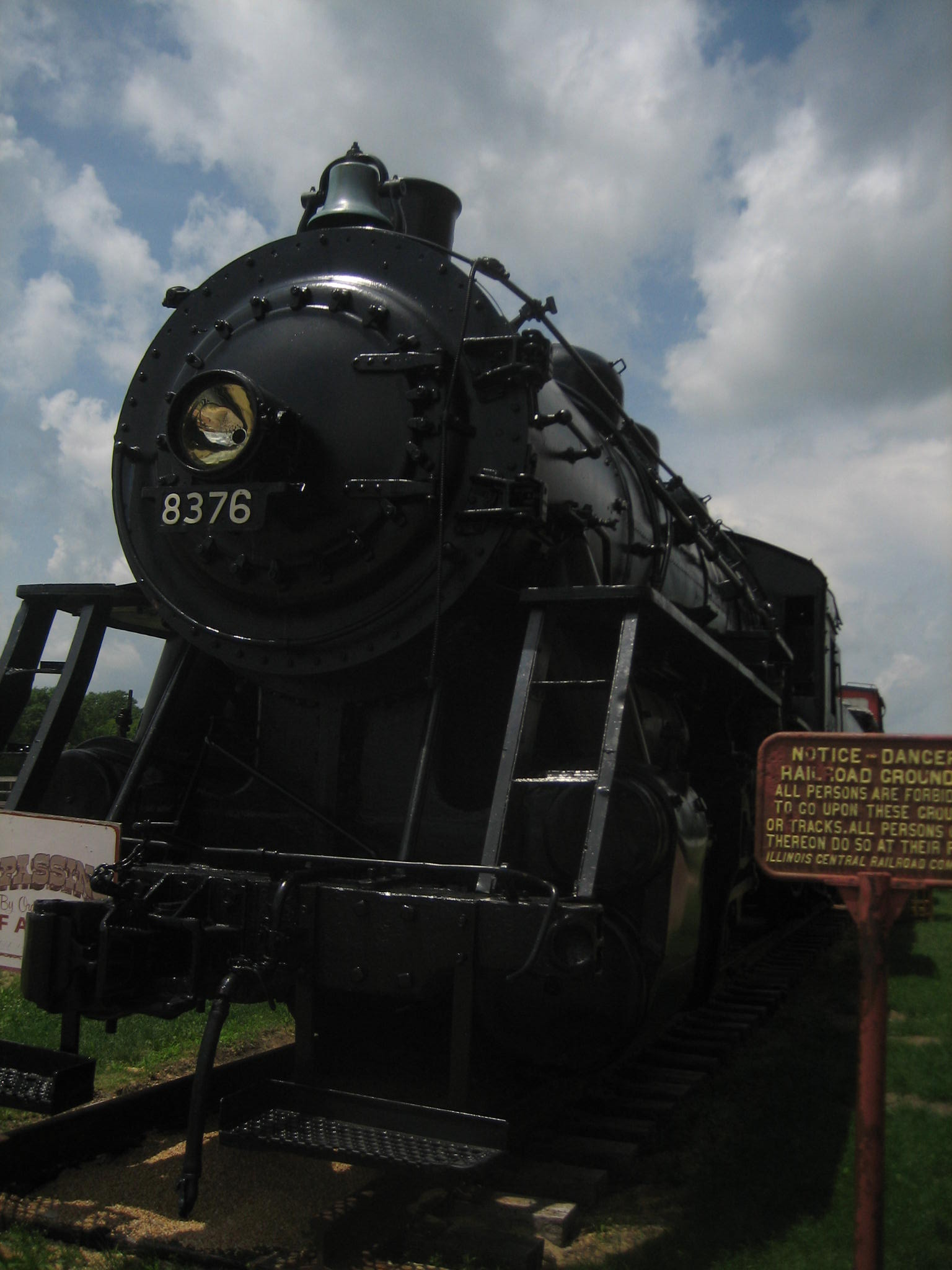 Amboy Illinois Central Depot, locomotive, Amboy, Illinois, National Register of Historic Places.